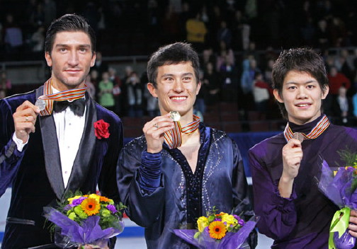 The men's podium at the 2009 Four Continents Championships. From left: Evan Lysacek (2nd), Patrick Chan (1st), Takahiko Kozuka (3rd)